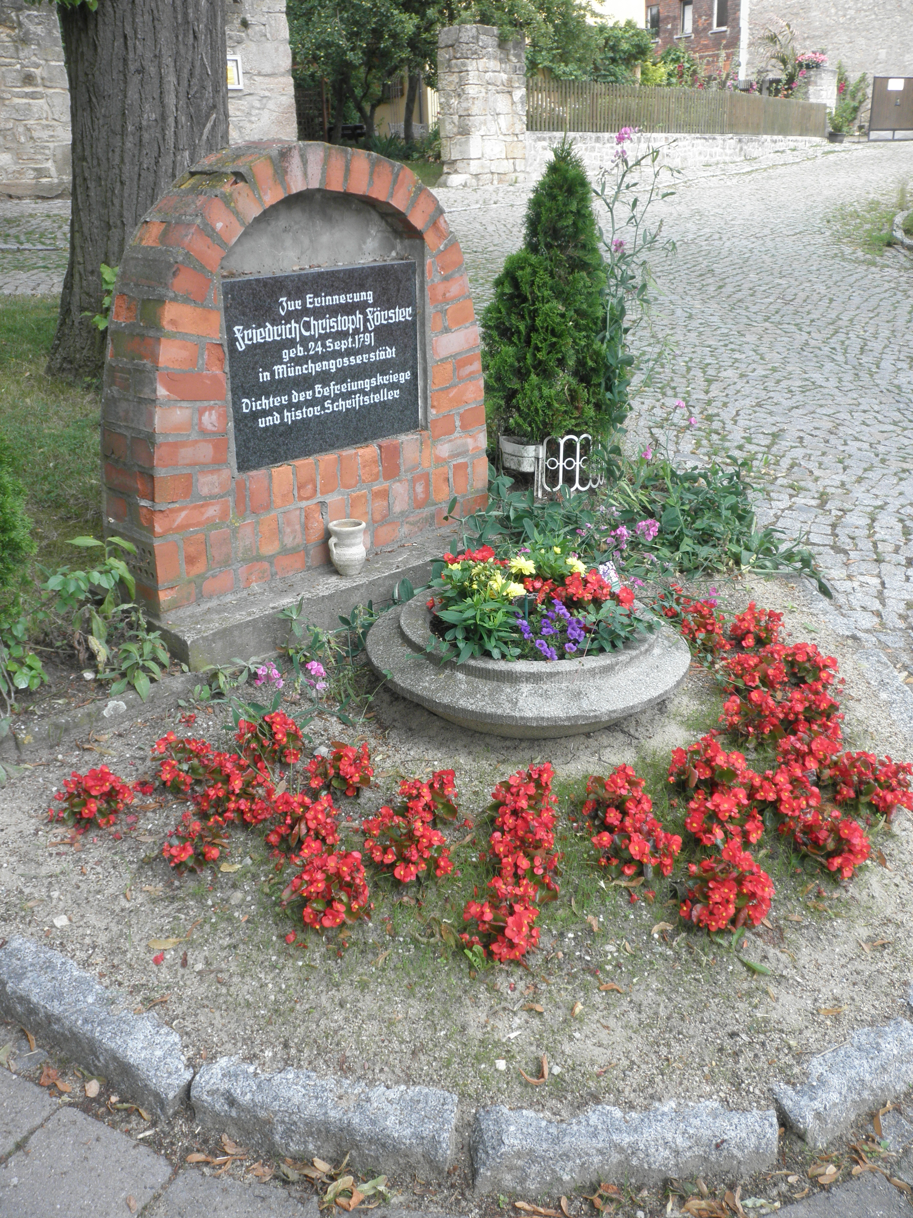 Memorial for Friedrich Förster in Münchengosserstedt (Saaleplatte) in Thuringia